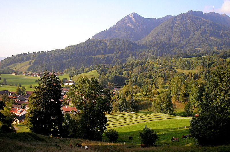 Chapel of ease St. Leonhard (Berghofen, Stadt Sonthofen, Landkreis Oberallgäu, Bavaria, Germany). The chapel and the "Grünten", seen from the "Walten" near Fluhenstein castle